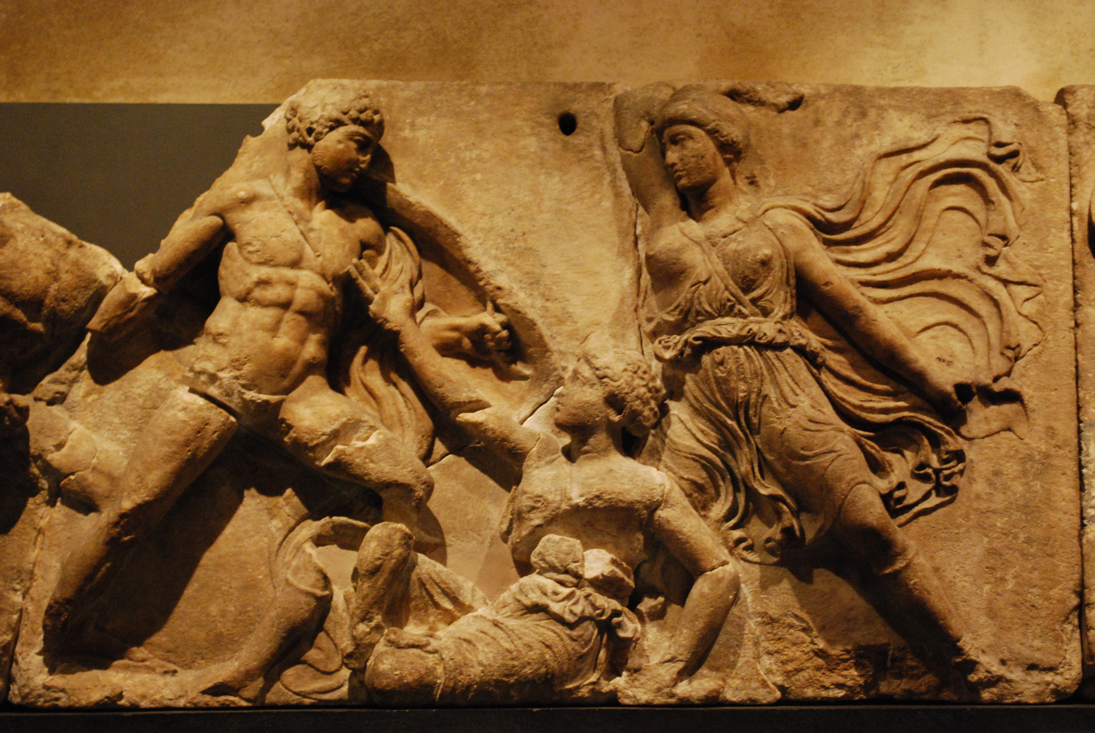 The Bassae Frieze is made from a set of 23 marble panels that were in the Temple of Apollo at Bassae. They were carved just before 400 B.C. The stones are on permanent display in a specially constructed room in Gallery 16 in the British Museum in London. Copies of this frieze decorated the walls of the Ashmolean Museum and London's Travellers Club. (Note the source numbers below show the order of the pictures)